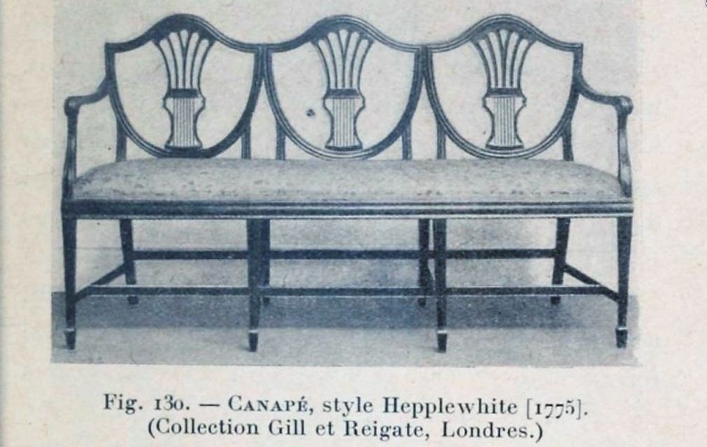 Triple settee (1775), carved wood, upholstered, Hepplewhite style with three shield-shaped backs, collection Gill et Reigate, London (in 1922).